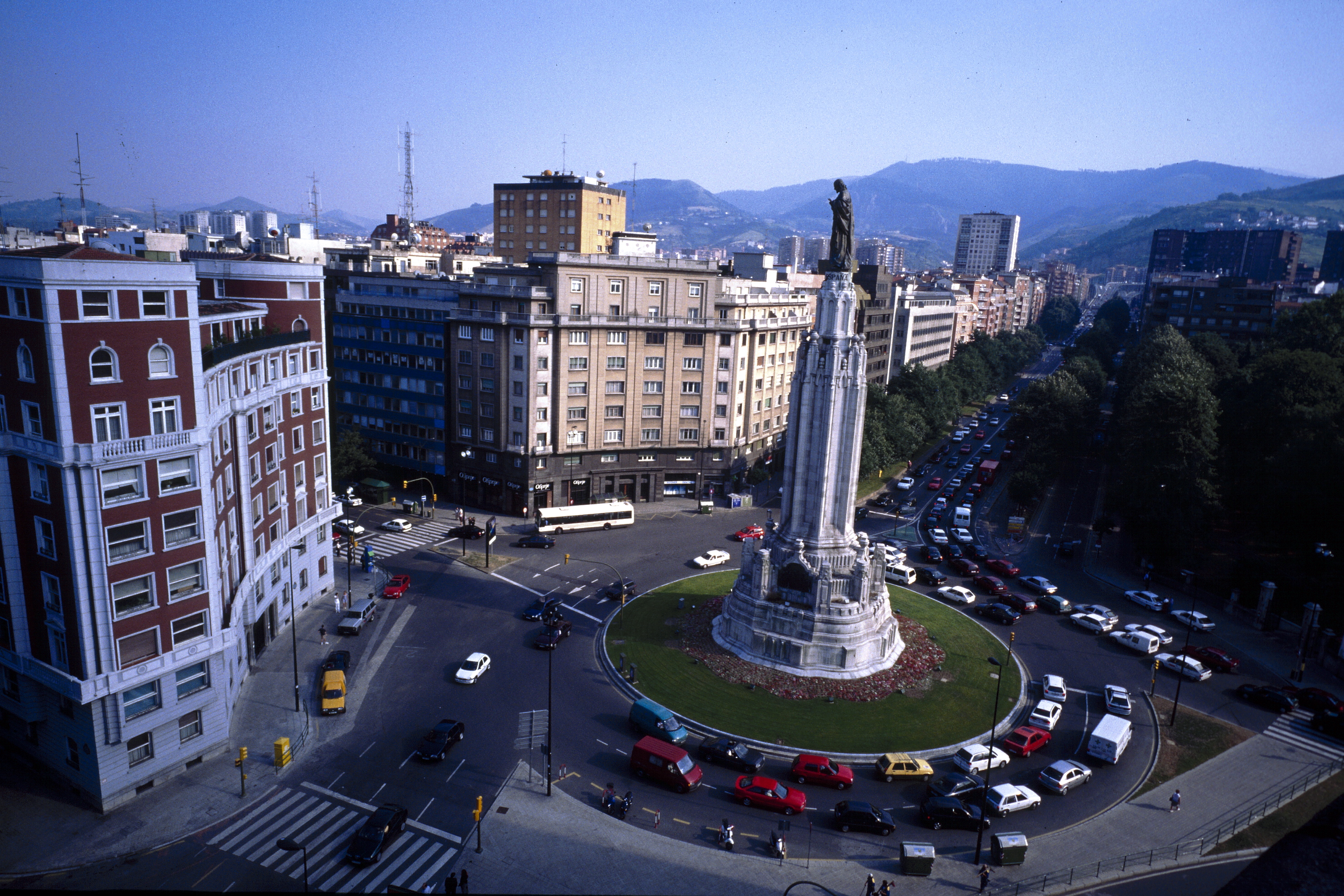 Jesus Christ's Heart monument, Bilbao. Bizkaia, Basque Country.